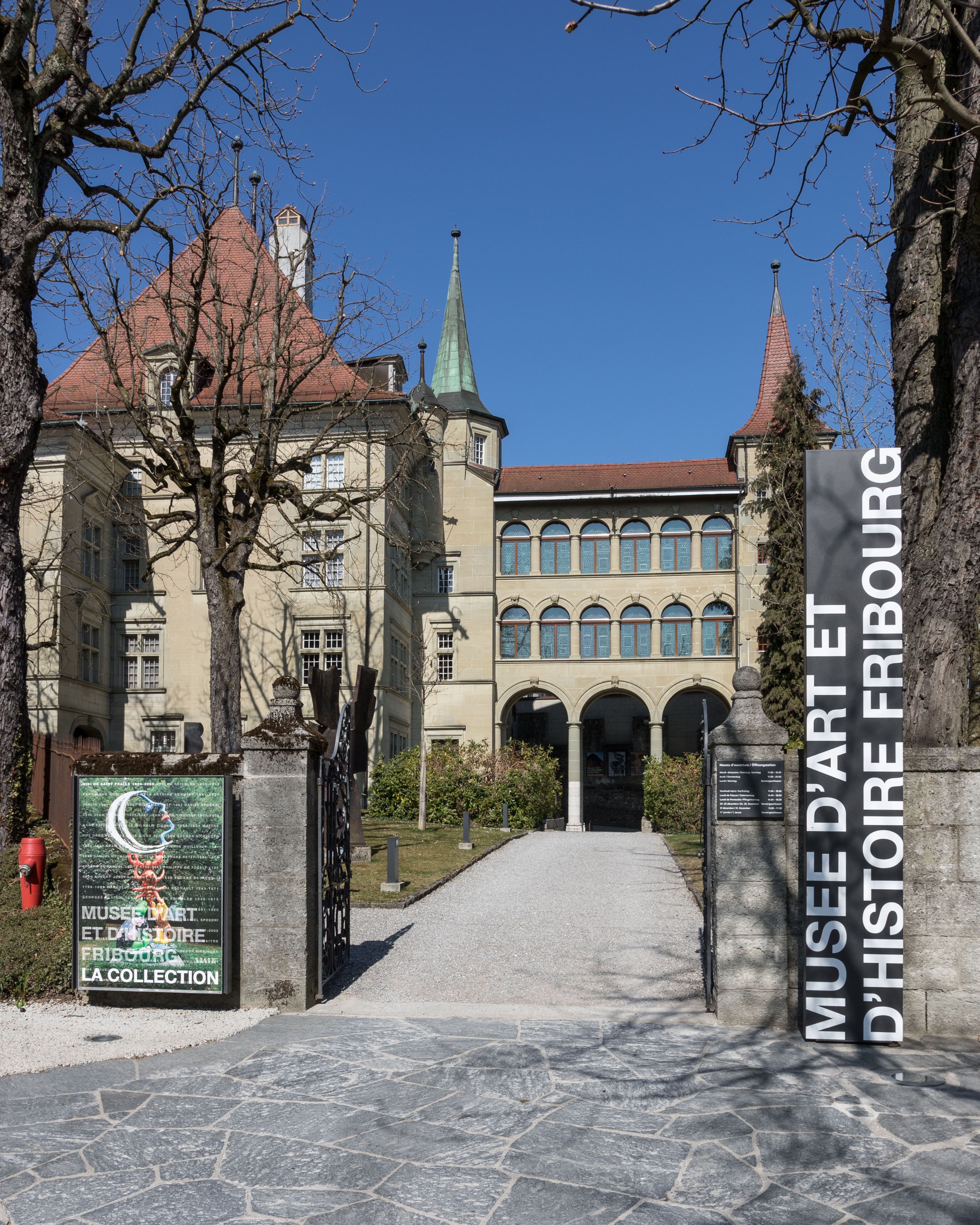 Museum of art and history in Fribourg, Switzerland